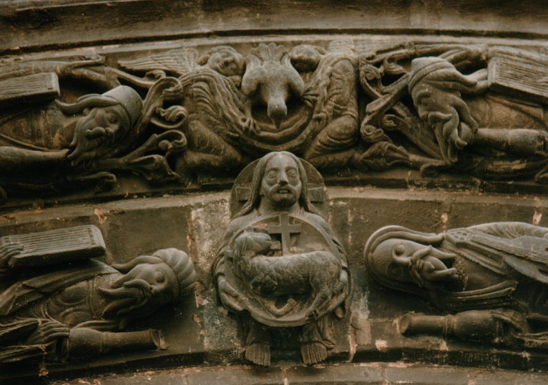 Depiction of the Trinity on the portal of the Basilica of St.-Denis, France.